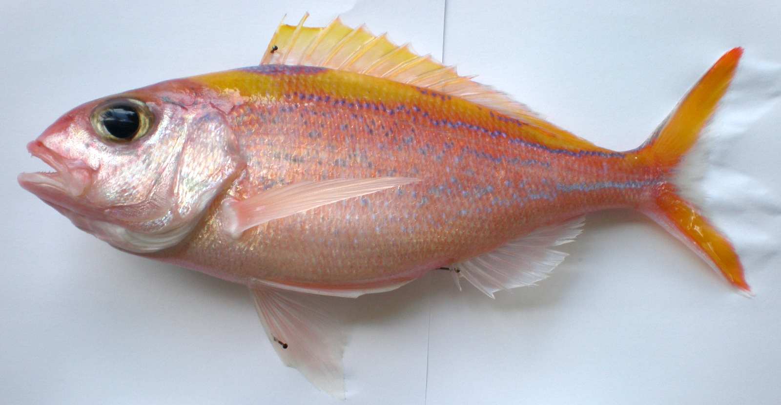 Pristipomoides argyrogrammicus JNC2604. Collected off Nouméa, New Caledonia, deep-sea off the Barrier Reef.